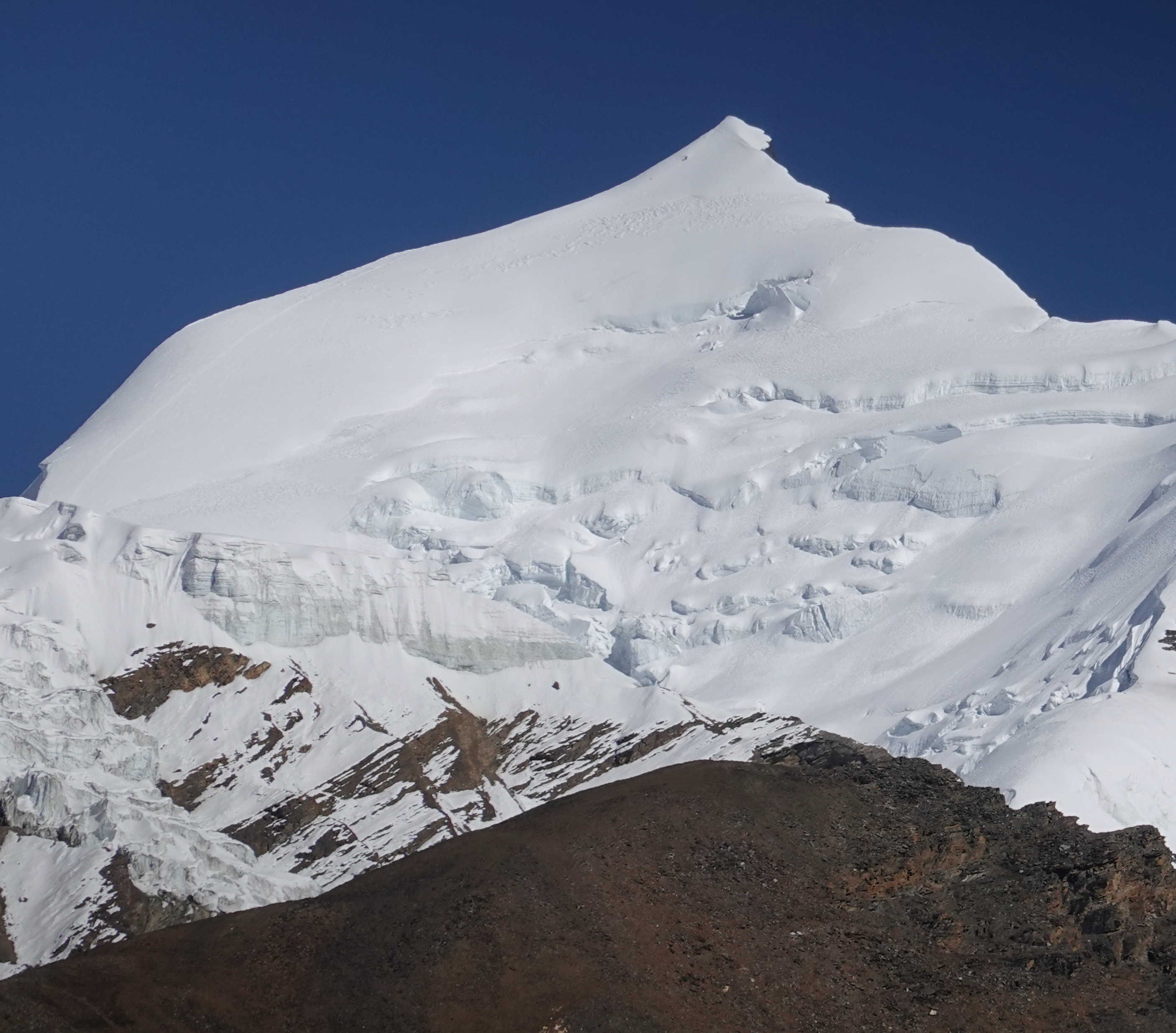 This is a photo taken from Himlung Basecamp. It also shows traces of the mostly used summit approach (look at the ridge in the upper left).